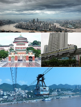 Montage of various Chongqing images Bân-lâm-gú: Tiông-khìng ê kíng-sik. 重慶的景色